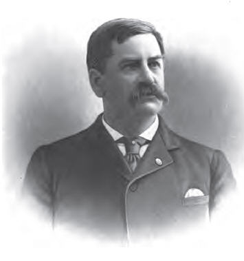 William H. Upham18th Governor of Wisconsinfrom A Political History of Wisconsin by A. M. Thomson, published by King, Fowle, McGee in Milwaukee, Wisconsin in 1898, page 140.